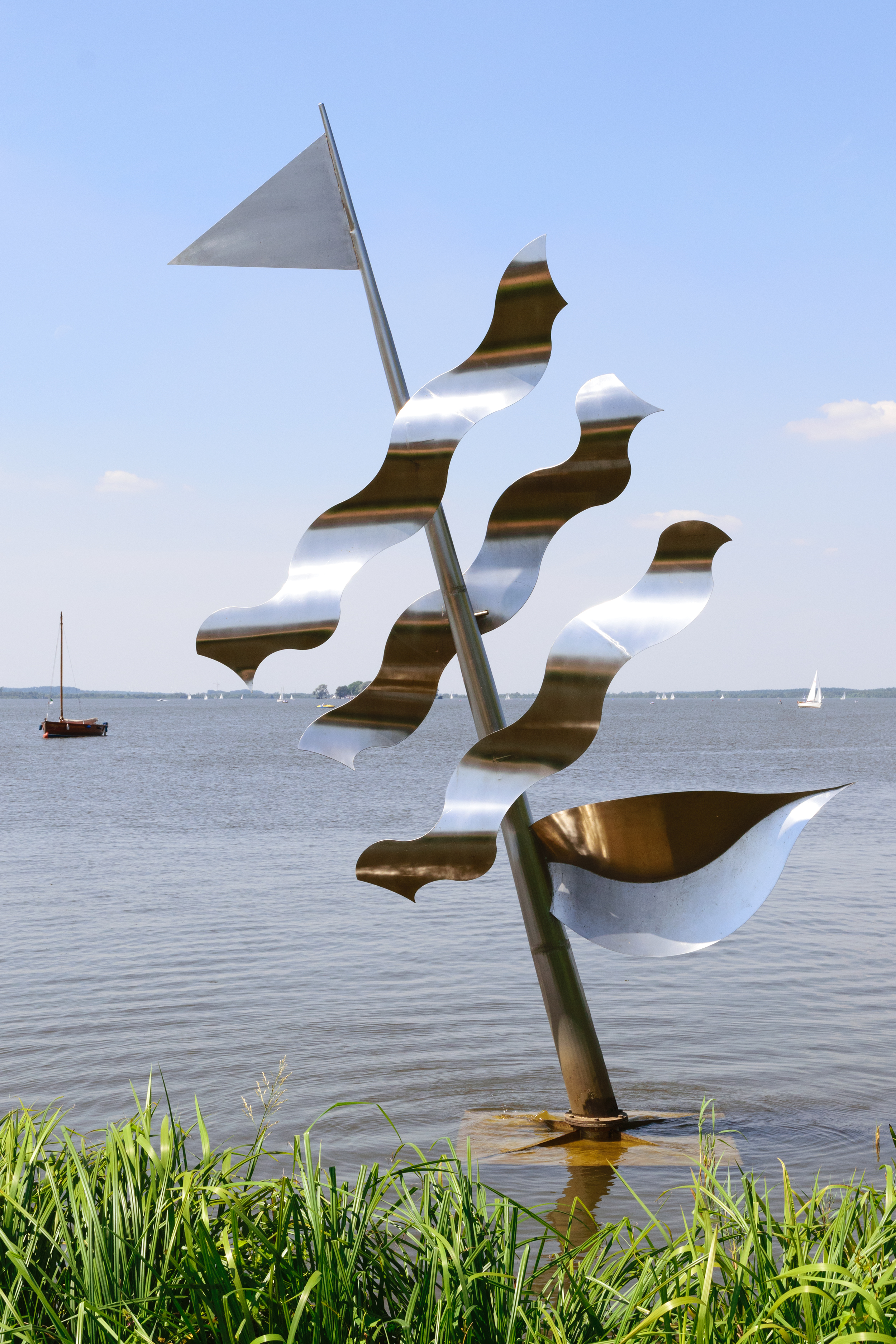 Stainless steel sculpture "Undine's Dream" from Hans Jürgen Zimmermann at Lake Steinhude